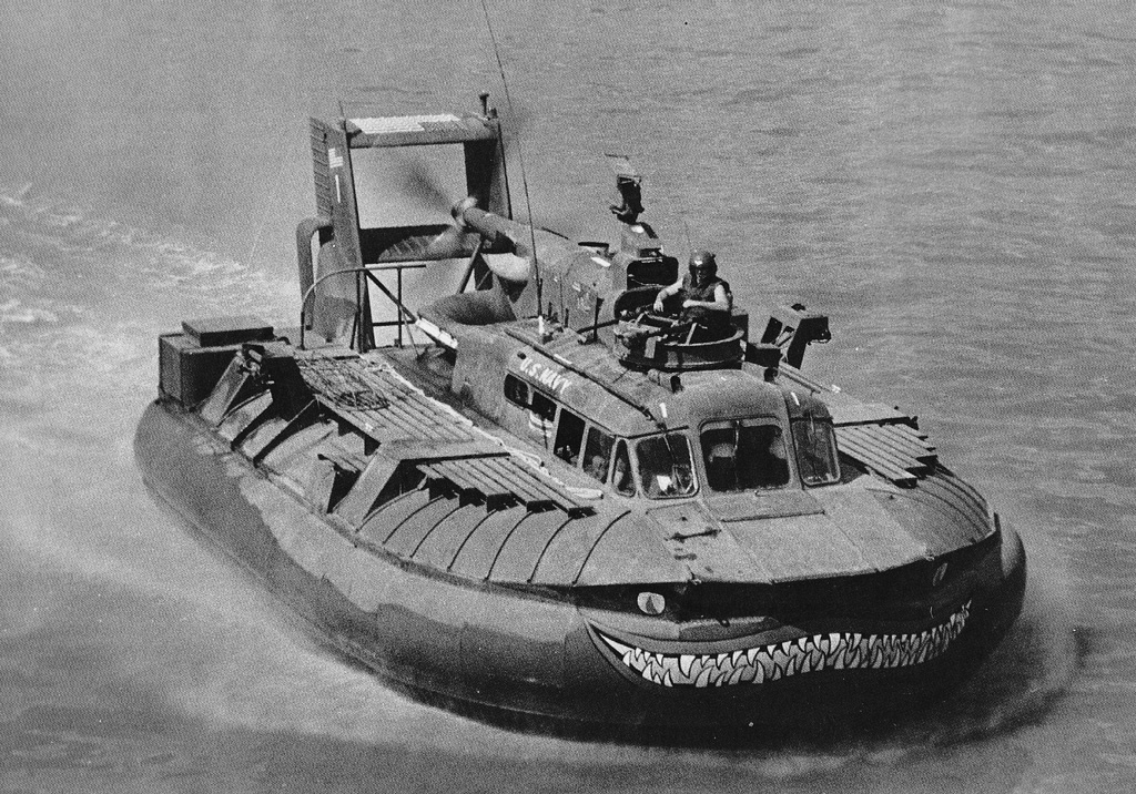 A PACV (Patrol Air Cushion Vehicle) SK-5 used during the Vietnam War. Nicknamed "Monsters" because of their appearance, dust and noise products, the PACVs worked throughout the 1967-1968 under the Task Force 116 "Game Warden".